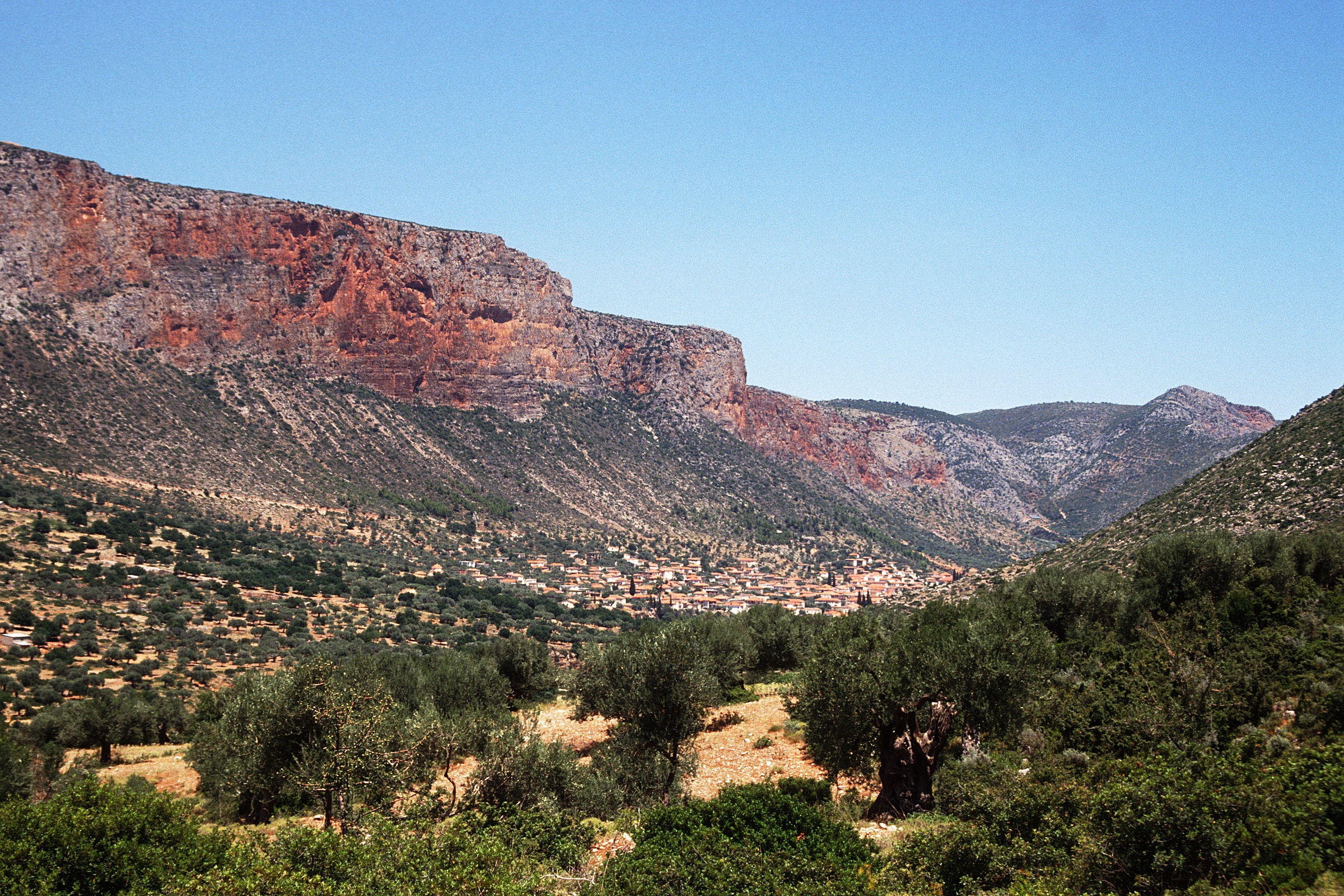 Landscape around Leonidi in Arcadia, view from the west to the village. (Scan from slide)